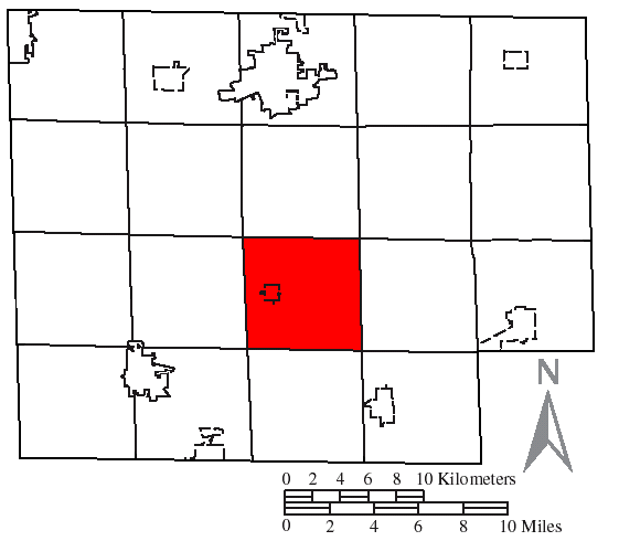 Made by the US Census and modified by myself